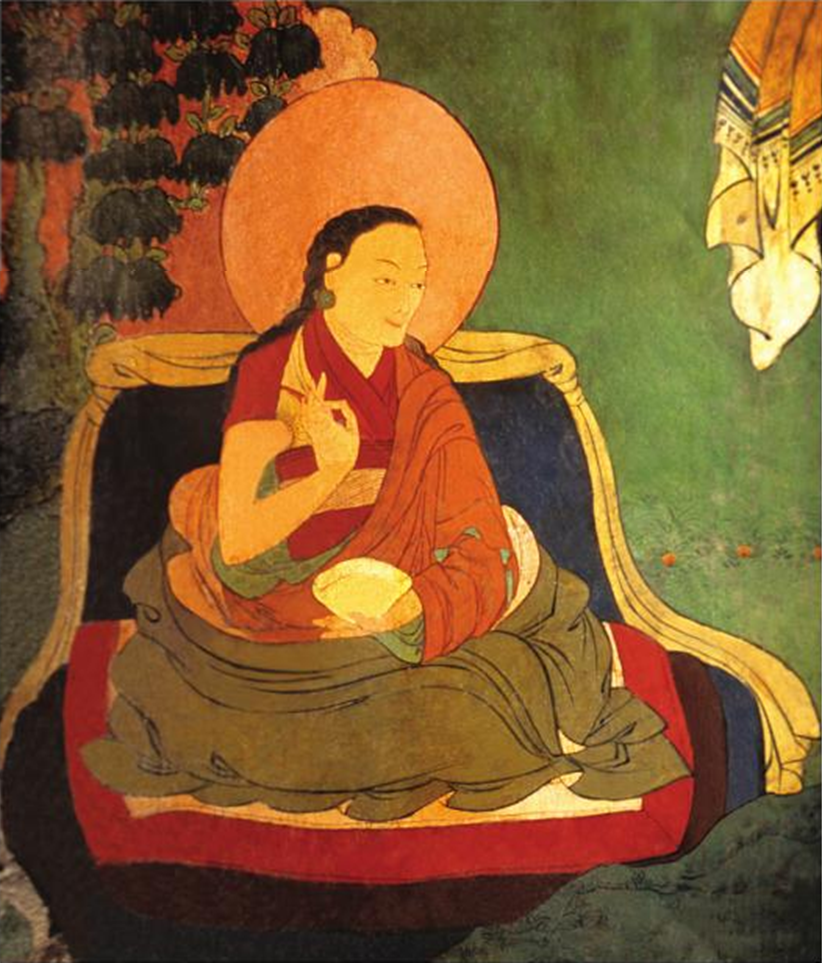 Mural portrait of a Dorje Phagmo incarnation at Nyêmo Chekar monastery in Nyêmo County, Lhasa, Tibet